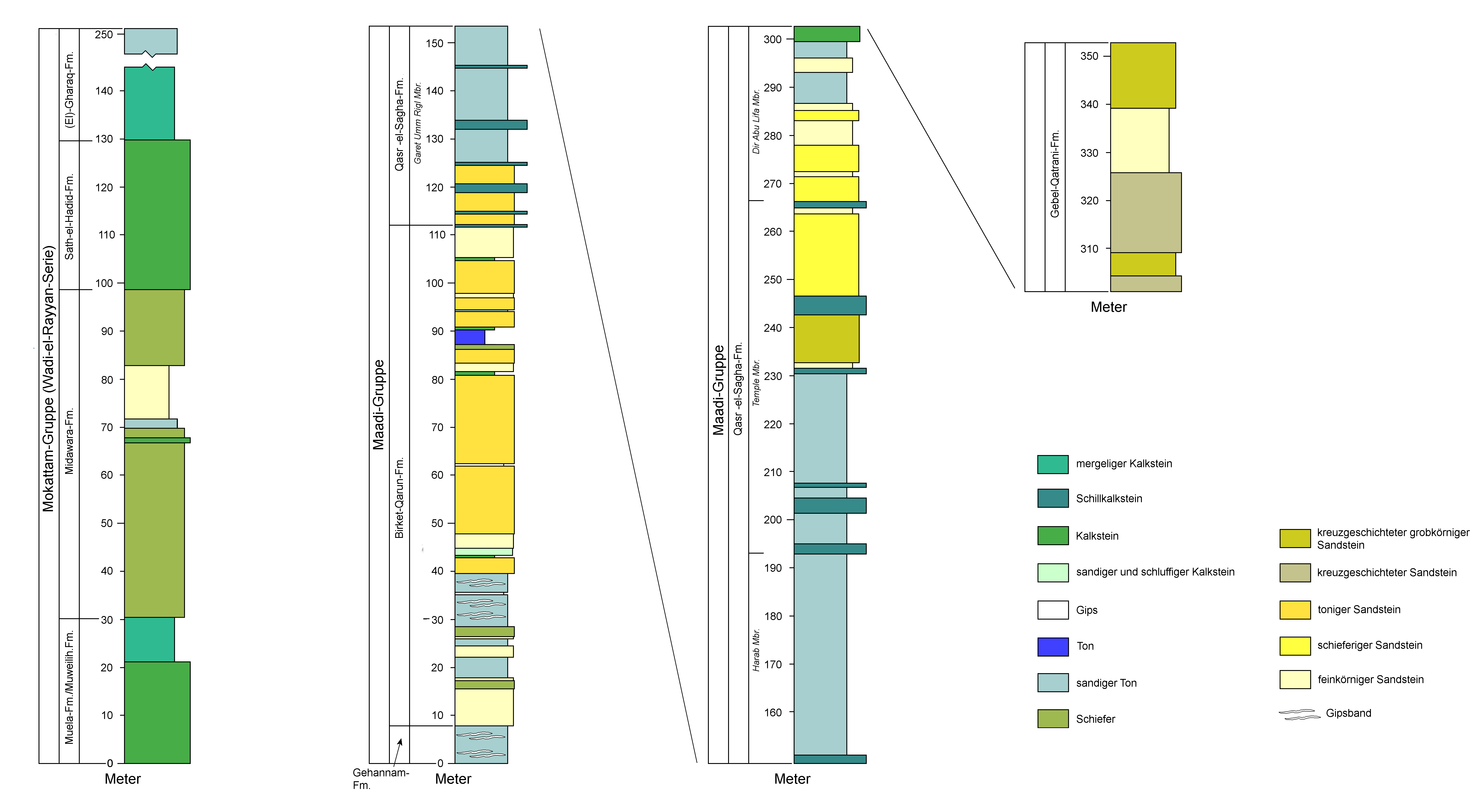 Geological section of Wadi al-Hitan redrawn after Iyad S. Zalmout and Philip D. Gingerich: Late Eocene Sea Cows (Mammalia, Sirenia) from Wadi Al Hitan in the Western Desert of Fayum, Egypt. Papers on Paleontology 37, 2012, pp. 1–158 (fig. 22 and 23)